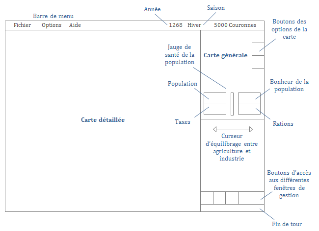 Diagram showing the functionalities of the interface in the video game Lords of the Realm II (1996)